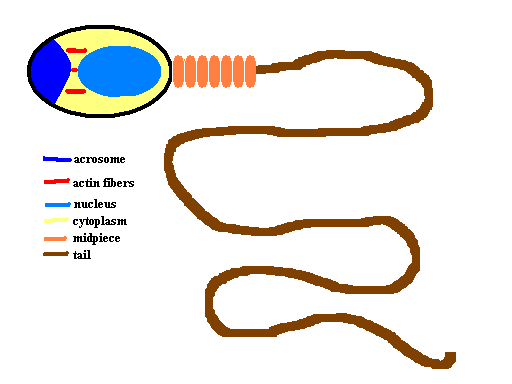 Diagram of the components of the mammalian human sperm cell prior to fertilization. Diagram shows the acrosome, actin fibers, nucleus, midpiece and tail